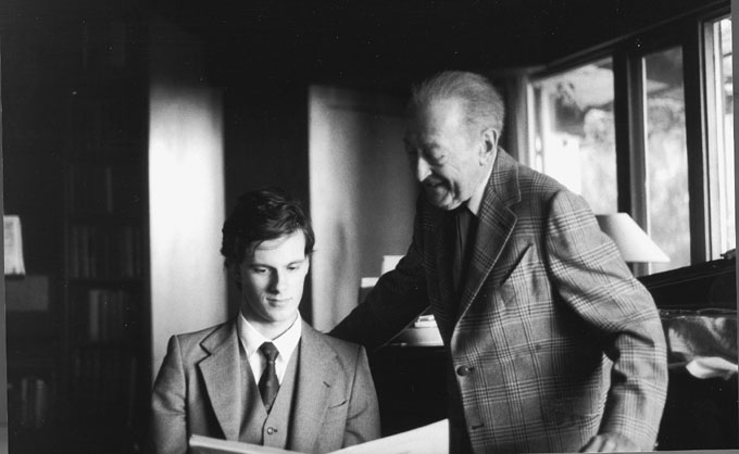 Photograph of Rudolf Koelman and Jascha Heifetz in Los Angeles 1979, foto taken by Rudolf Koelman (selftimer)